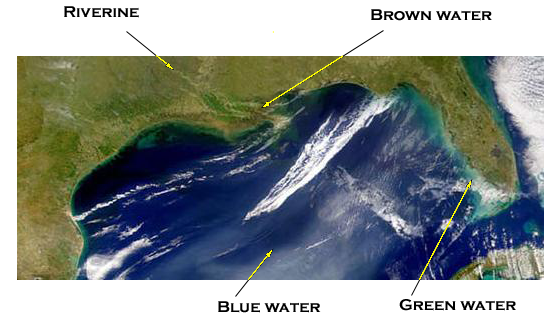 Original image via NOAA. Annotations by Joseph P. Hillenburg The riverine arrow points to the Mississippi River; the brown water arrow indicates the Mississippi Delta; the green water arrow refers to the shallow areas offshore of Florida; and the blue water arrow leads to the open ocean. Regarding base data: Regarding annotations